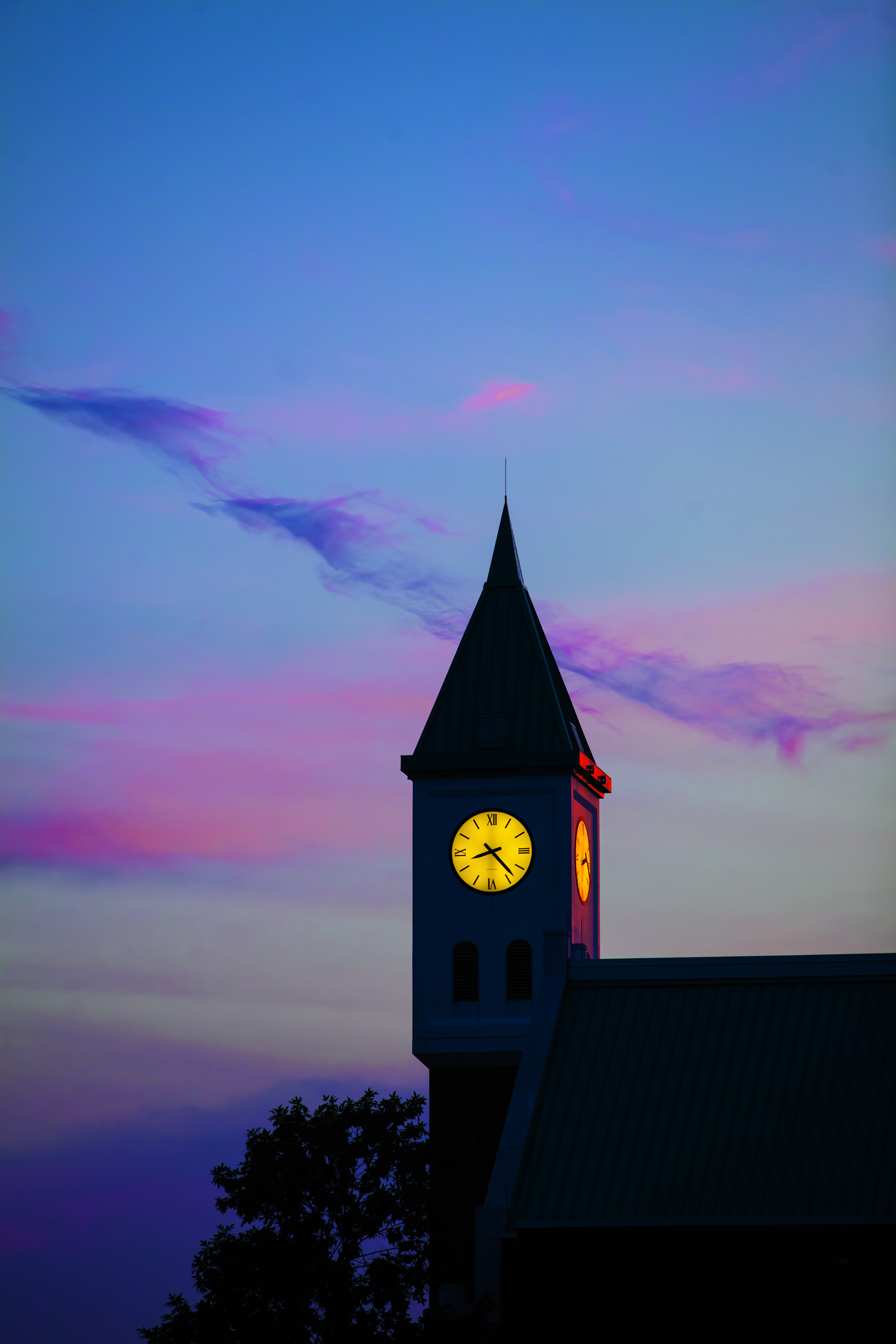 The NSU clock tower at sunset.